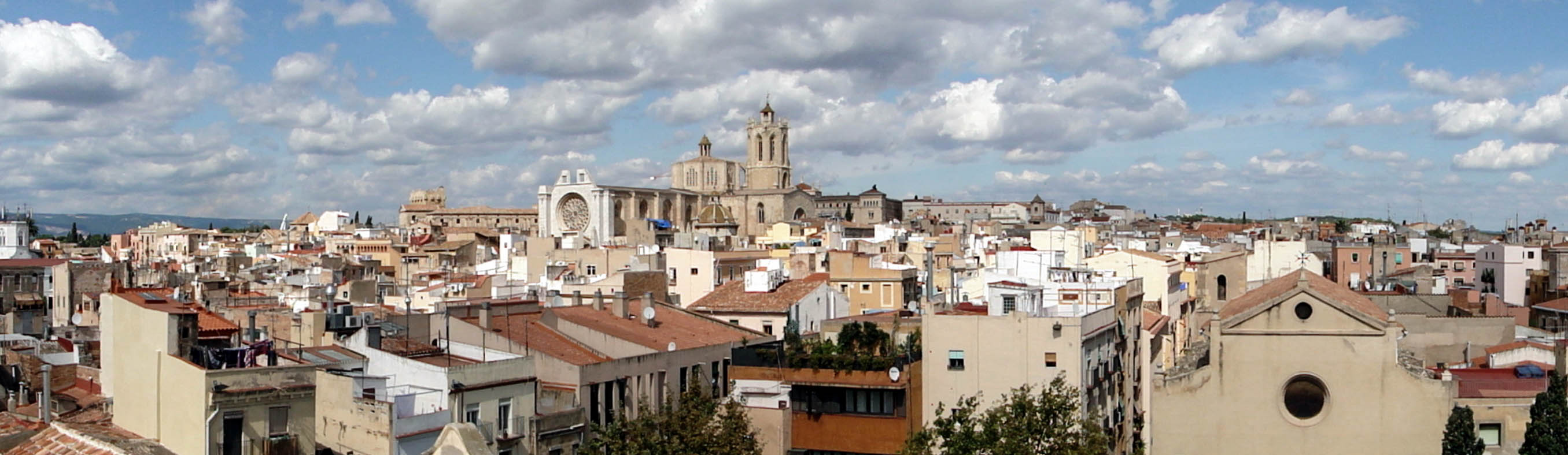 View of the old town with the Cathedral, Tarragona, Catalonia, Spain